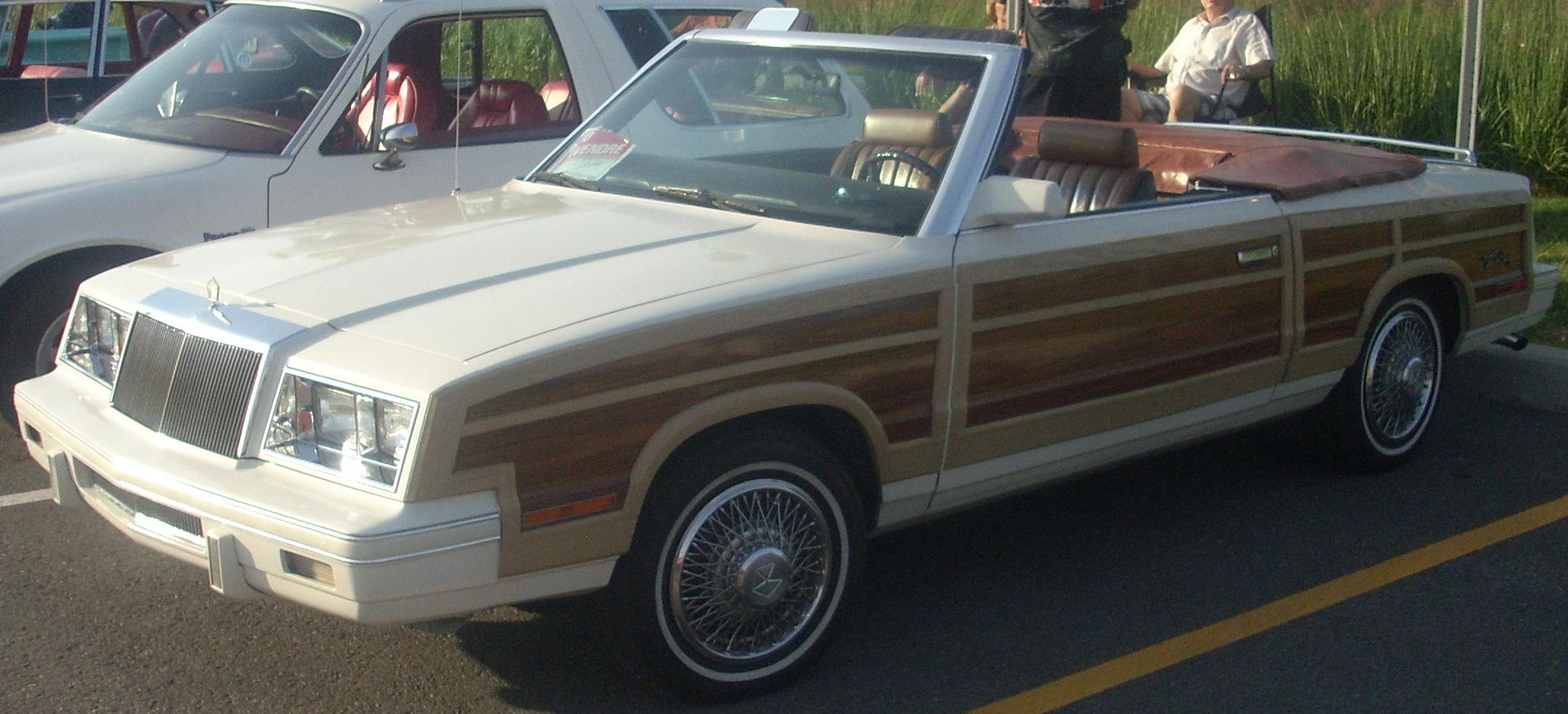 Chrysler Town & Country photographed in Laval, Quebec, Canada at Centropolis Laval.